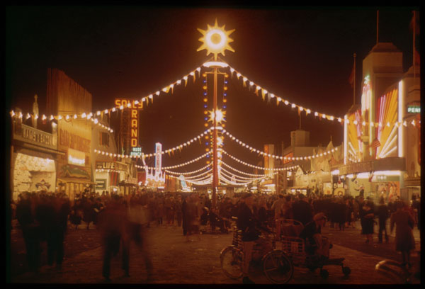 Description: The Fair. Gayway at night. Creator: Cushman, Charles Weever, 1896-1972 View source image or order reproductions. More information on the commercial rights for this photo. Part of Charles W. Cushman Collection Indiana University, Bloomington. University Archives. Brought to you by IMLS Digital Collections and Content. Unrestricted access; use with attribution.